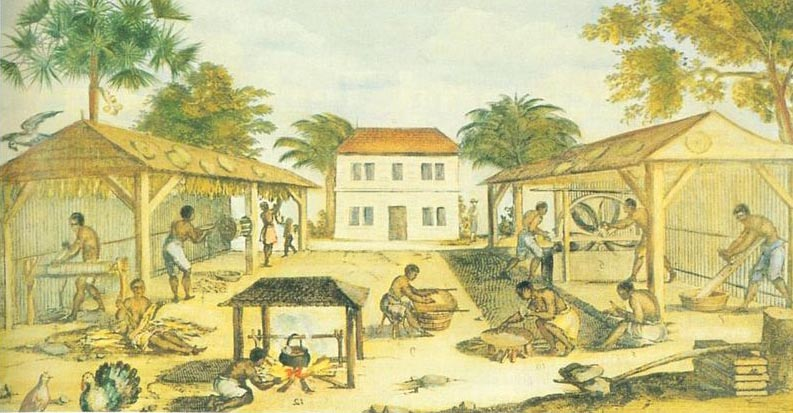 "Slaves working in 17th-century Virginia," by an unknown artist, 1670.